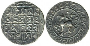 Antique silver tanka coin issued by Dhanya Manikya, king of Tripura